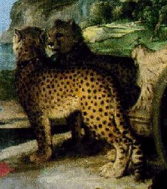 Bacchus & Ariadne (detail)